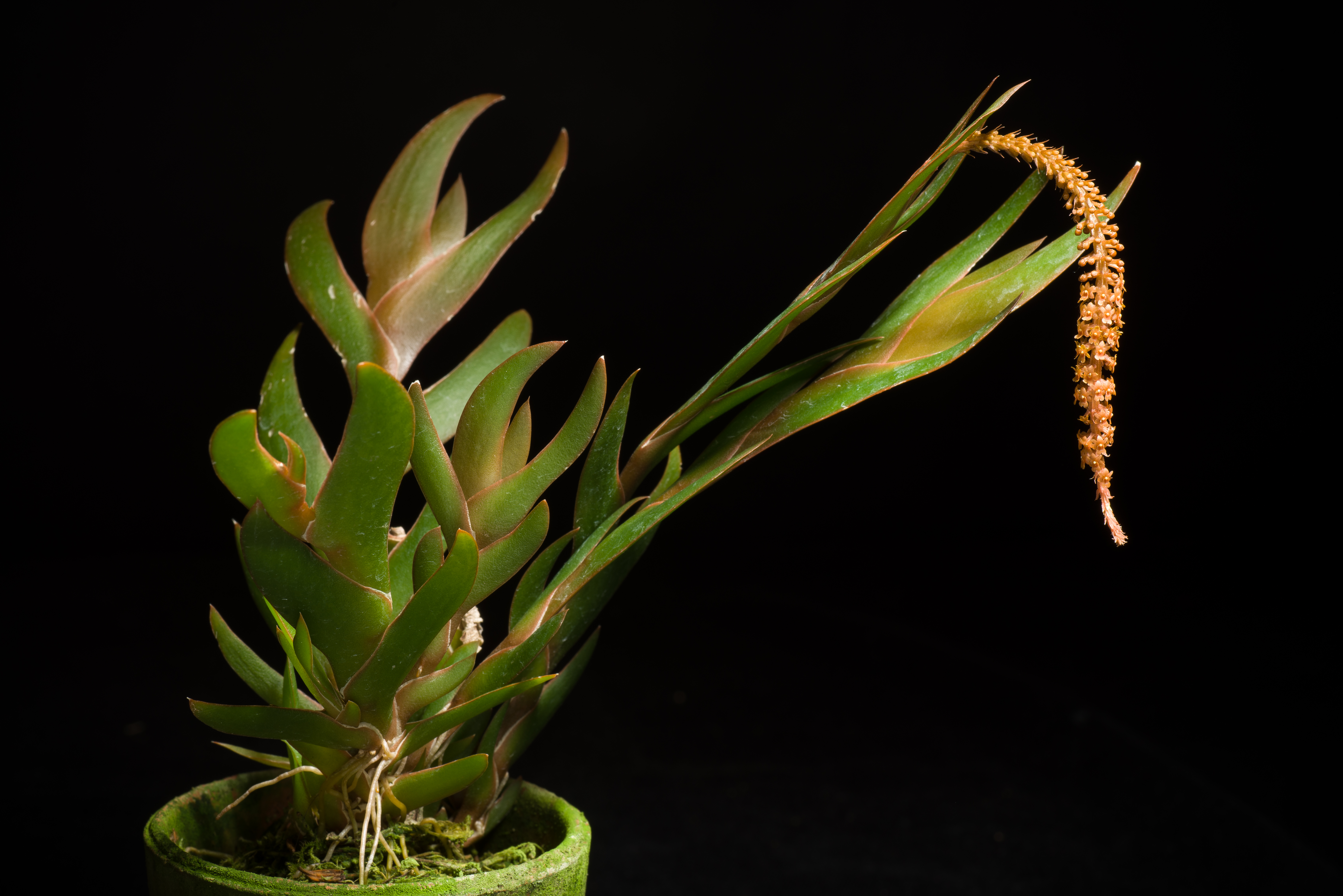 Oberonia crateriformis - (Australia , Queensland )